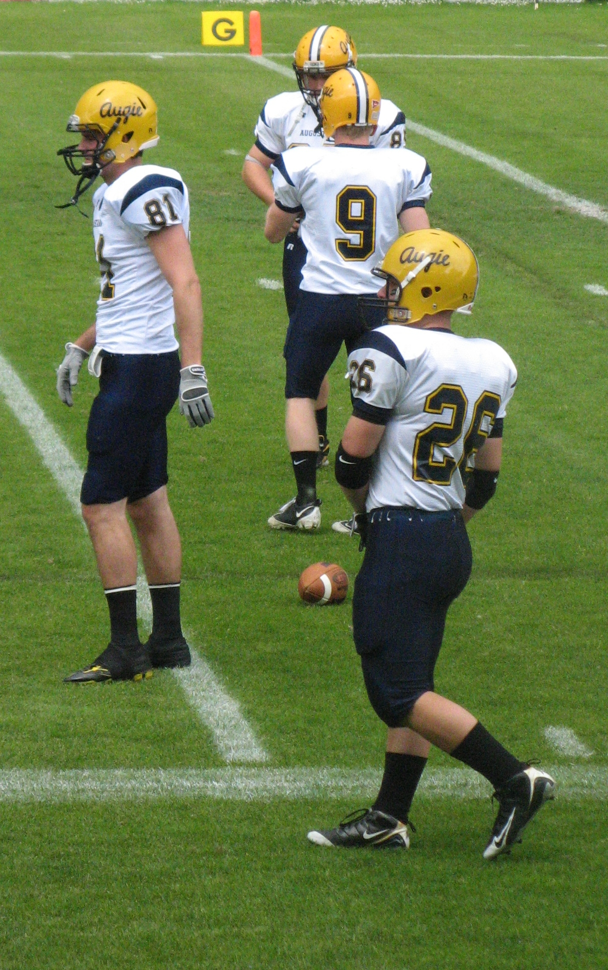 Charity Bowl XII: Team Austria vs. Augustana Vikings (10-3) @ Hohe Warte Stadium, Vienna, Austria; warm up